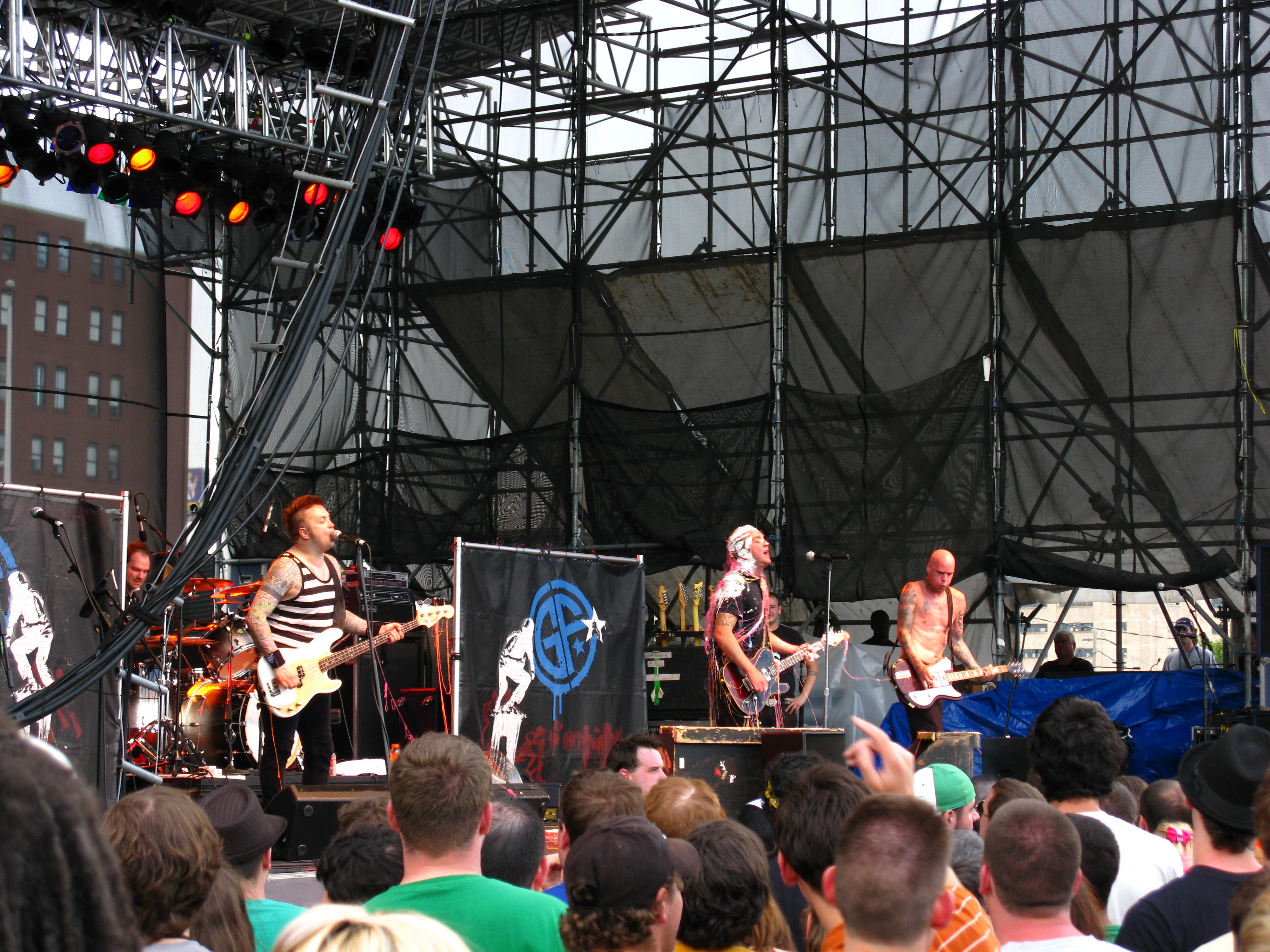 Goldfinger live in Philadelphia in June 2008.